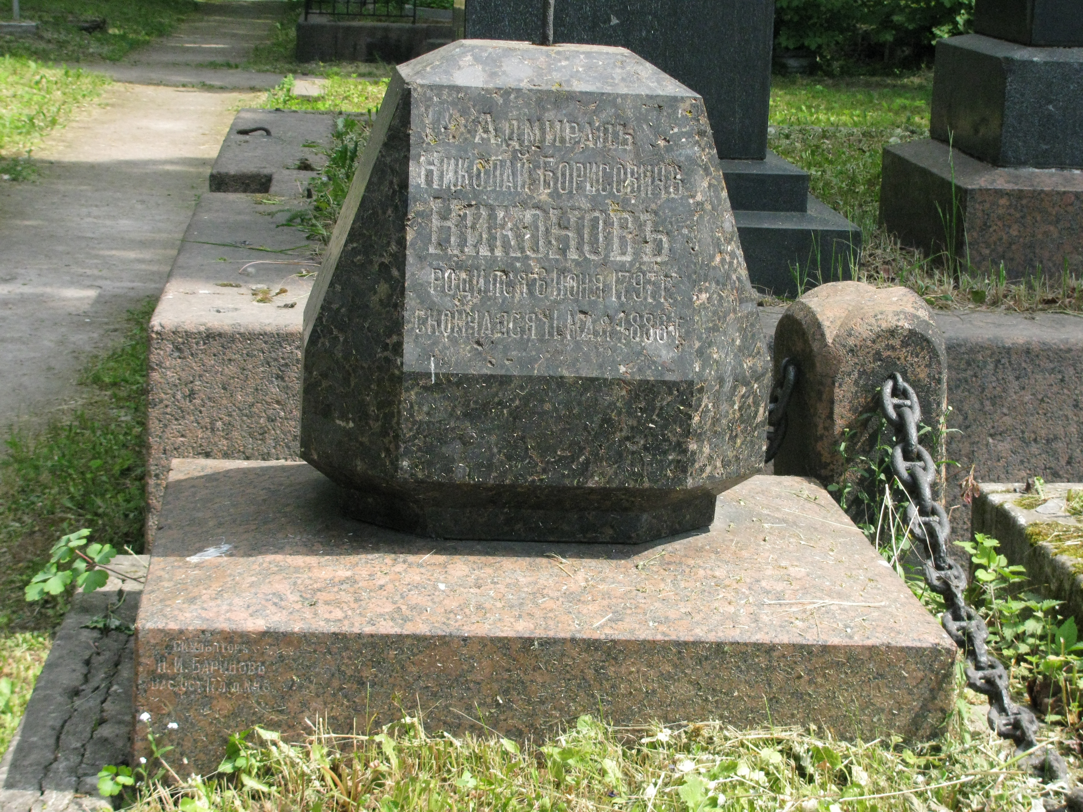 Grave of Nikolay Nikonov, Russian Navy Admiral.